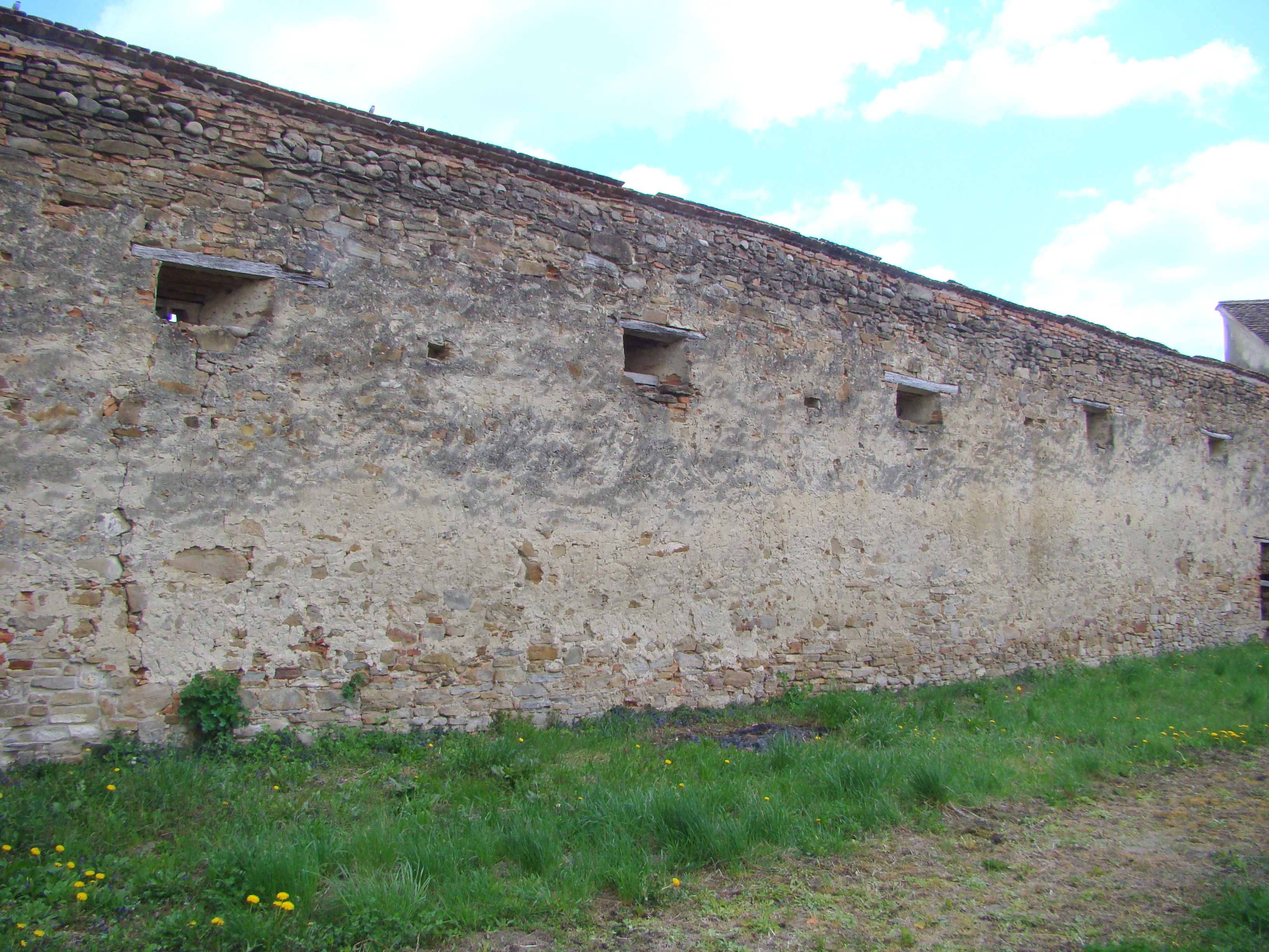 Lutheran church in Cloașterf, Mureș county, Romania